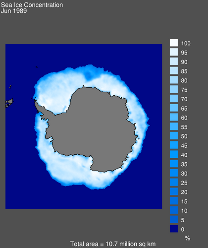 Sea Ice Concentration of Antarctic in June 1989